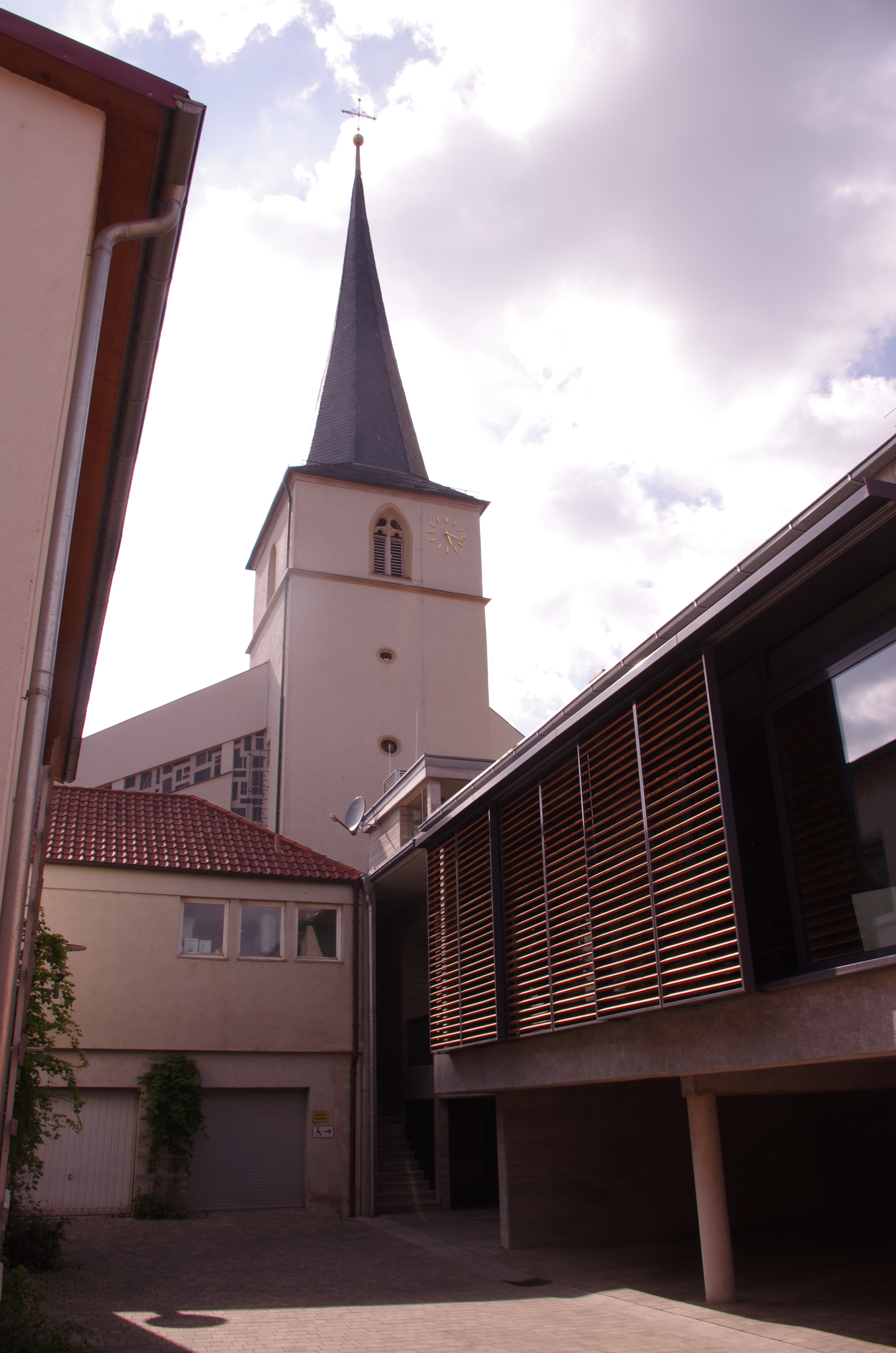 Google Maps - Google Earth